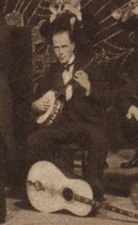 Curt Ljunggren (1900-1975), Swedish banjoist and bandleader (detail from a photo of Helge Lindberg's orchestra).